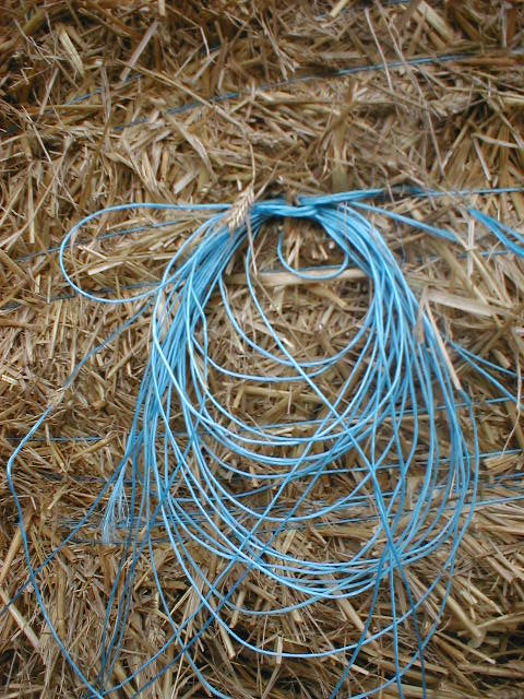 Baling twine – "I used to think that blue baling-twine was a uniquely Welsh phenomenon, but I was clearly wrong. However I think the infra-structure is sounder here en Bretagne. I continue to believe that the whole of Wales is precariously held together with baling-twine."